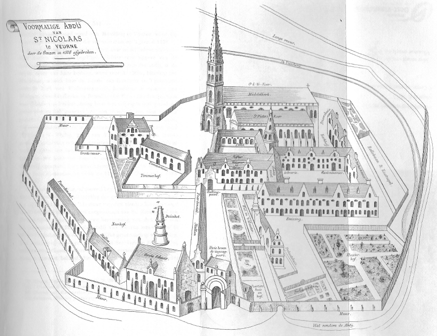 Sint-Niklaasabdij Veurne door de Geuzen afgebroken in 1578